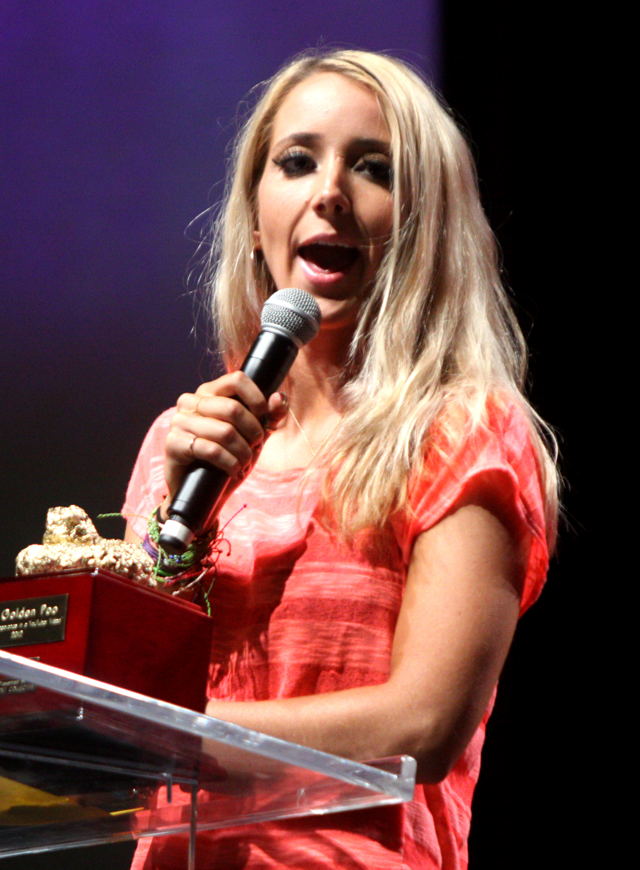 Jenna Marbles at the 2012 VidCon in Anaheim, California.